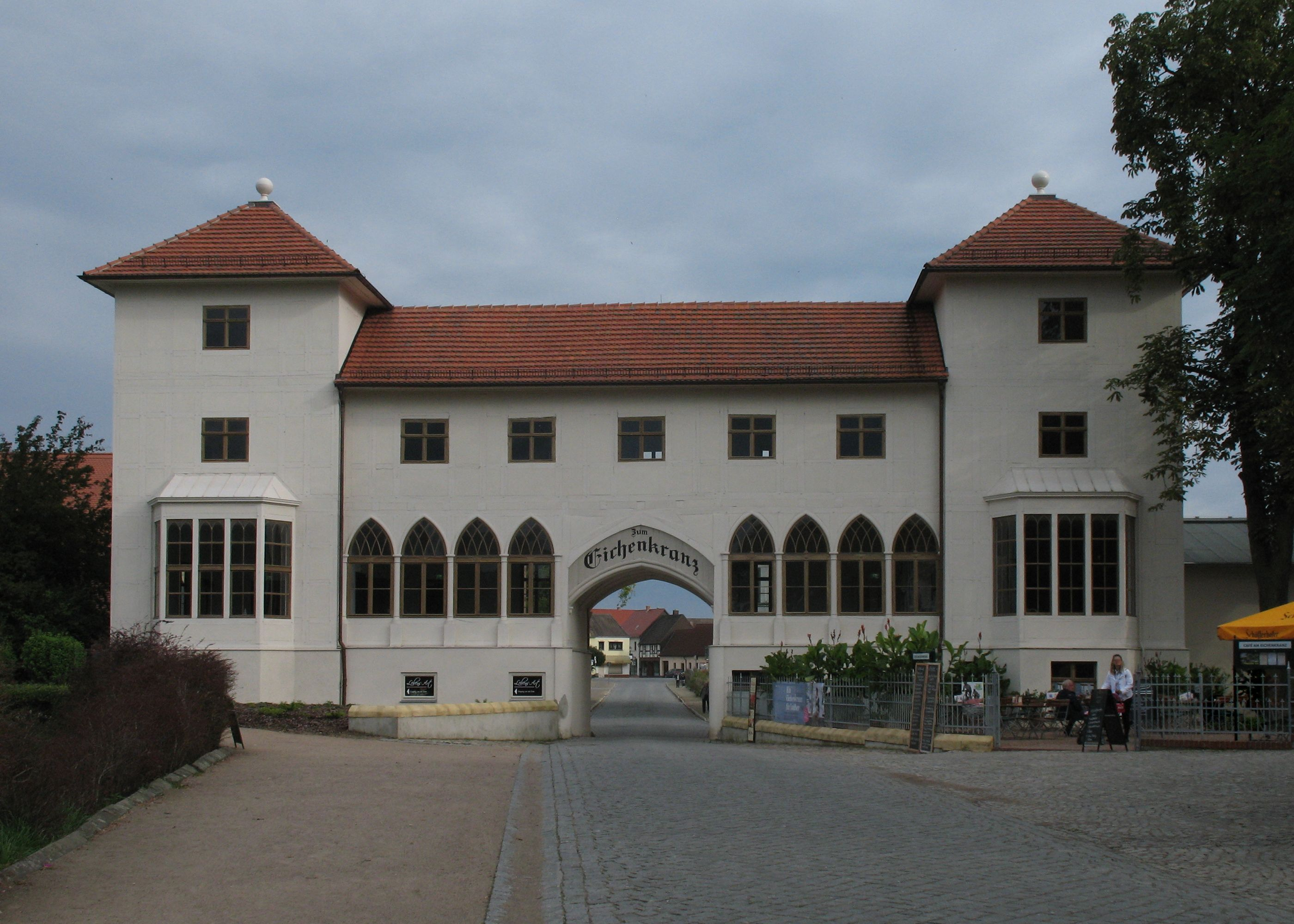 Historic inn in Wörlitz in Saxony-Anhalt, Germany